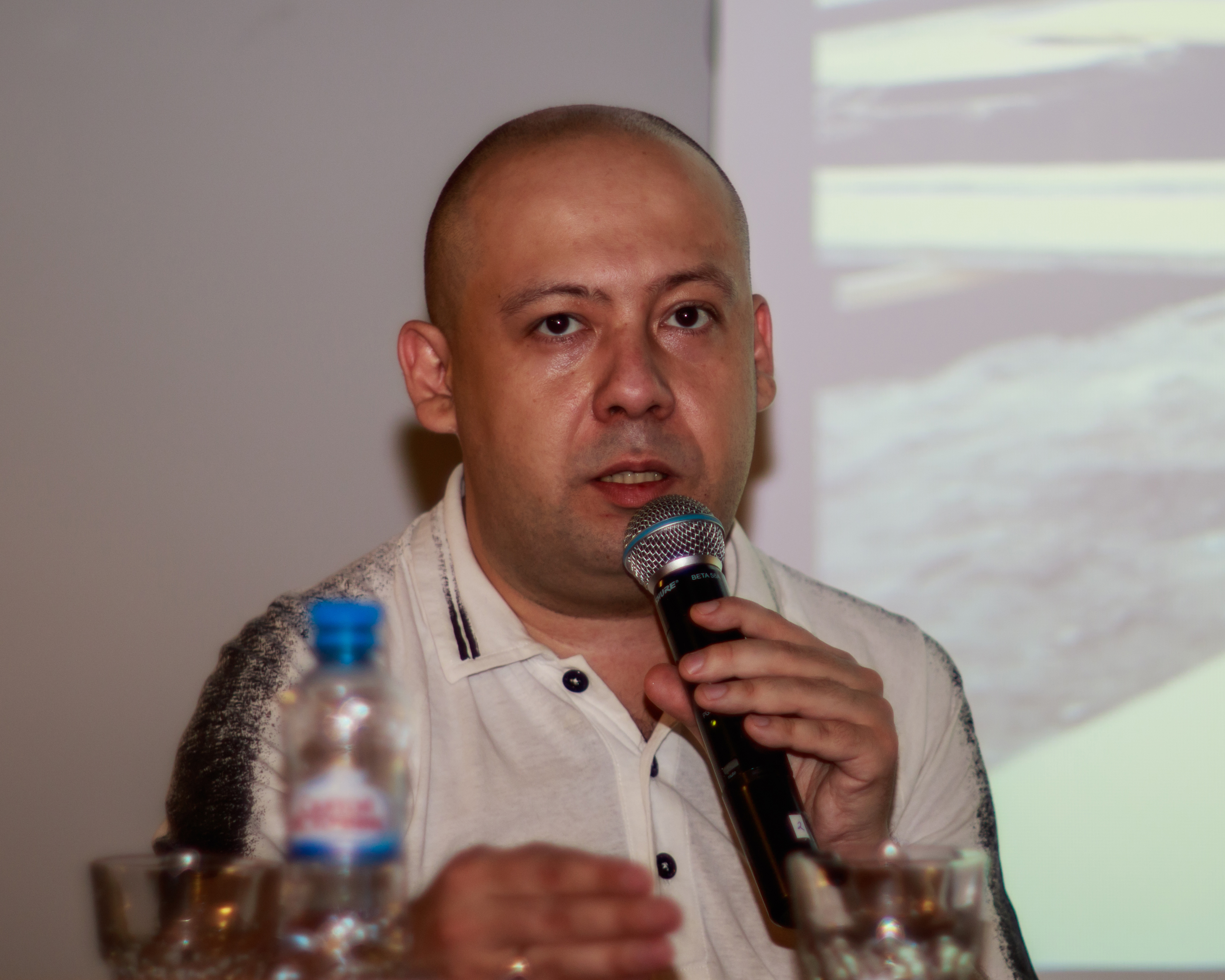 Alexei German Jr. (b. 1976) is a Russian film director.